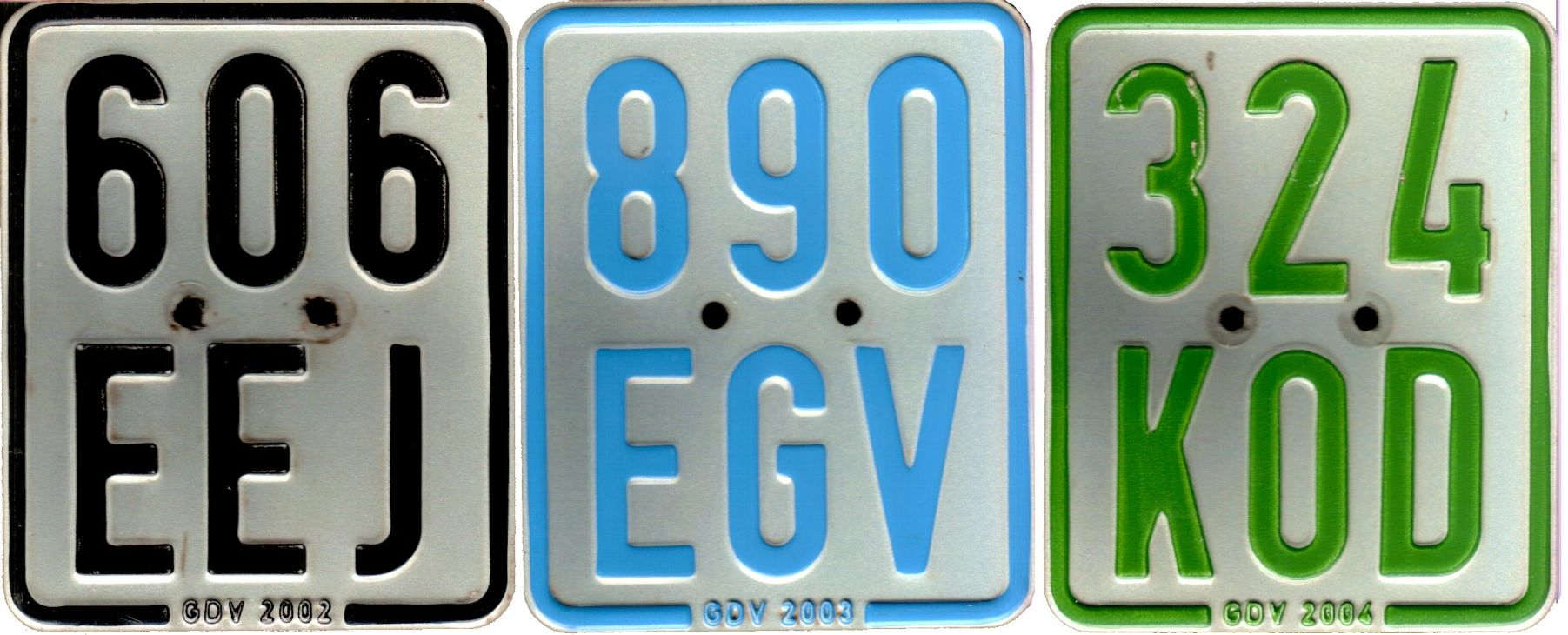 Versicherungskennzeichen, colour of the letters are changed yearly